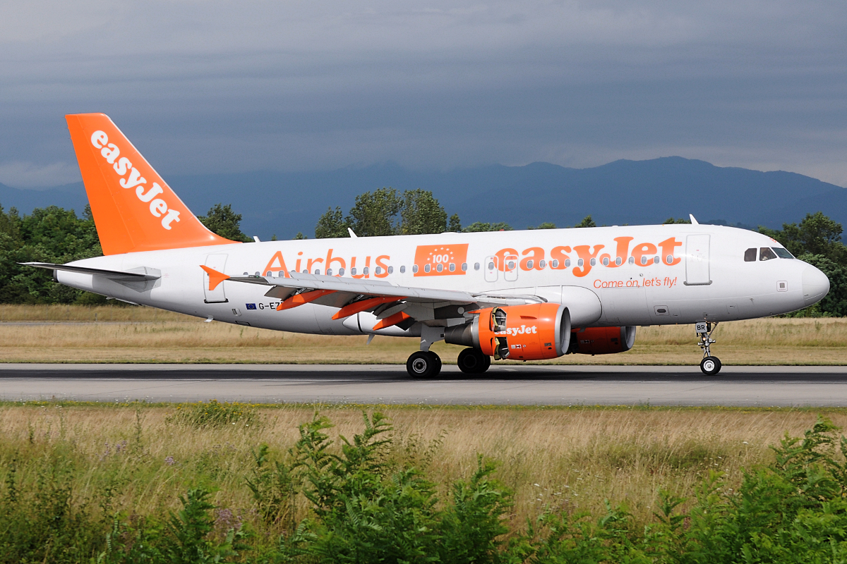 The 100th Easyjet Airbus